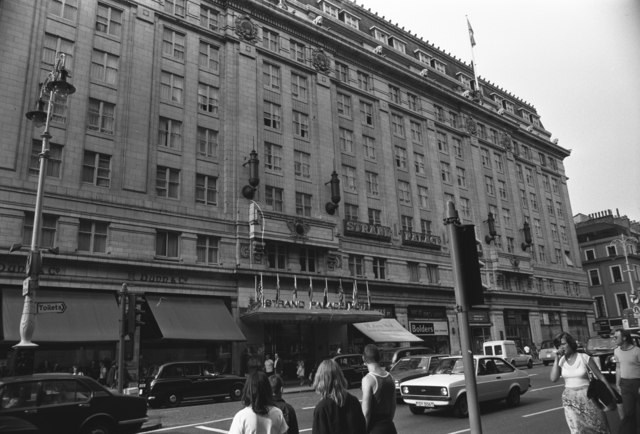 The Strand Palace Hotel, The Strand I was here to visit the basement engineering department round the back on Tavistock Street.